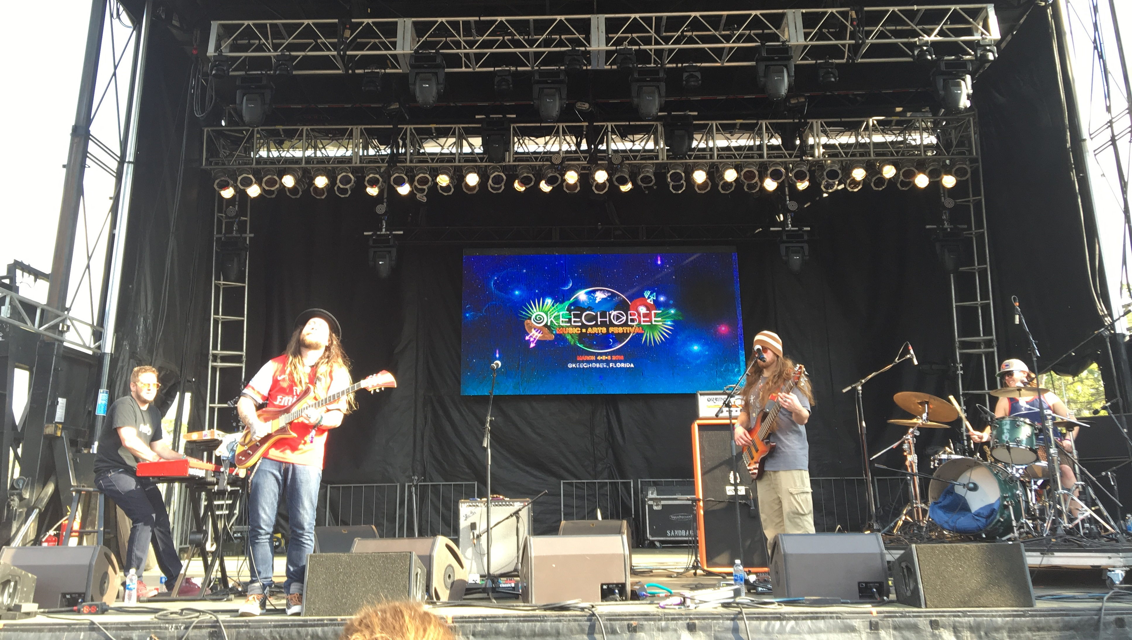 Twiddle performing at Okeechobee Festival 2016.